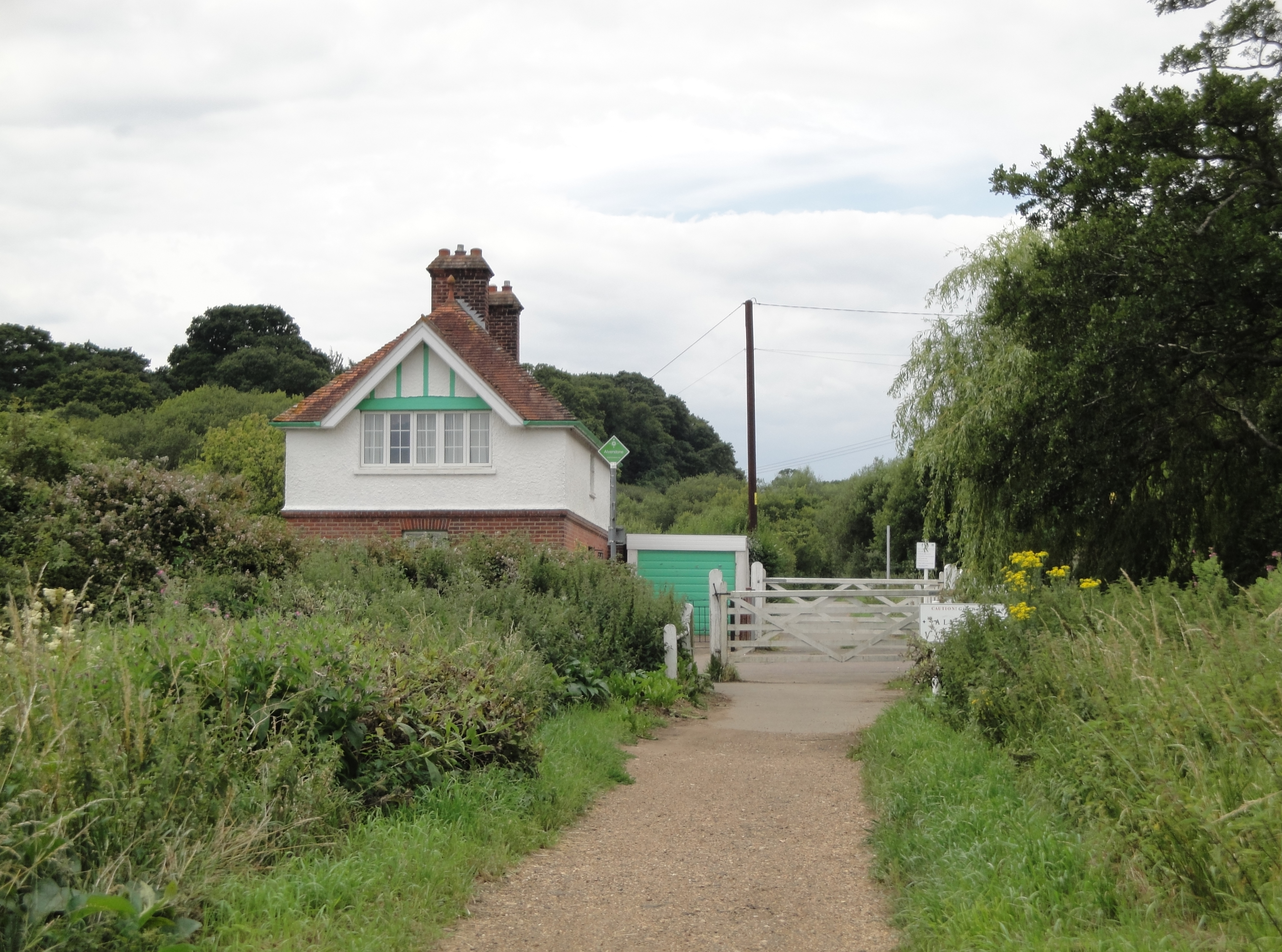 The old Alverstone railway station, on Alverstone Road, Alverstone, Isle of Wight. It has now been converted into a house after its closure in 1956.